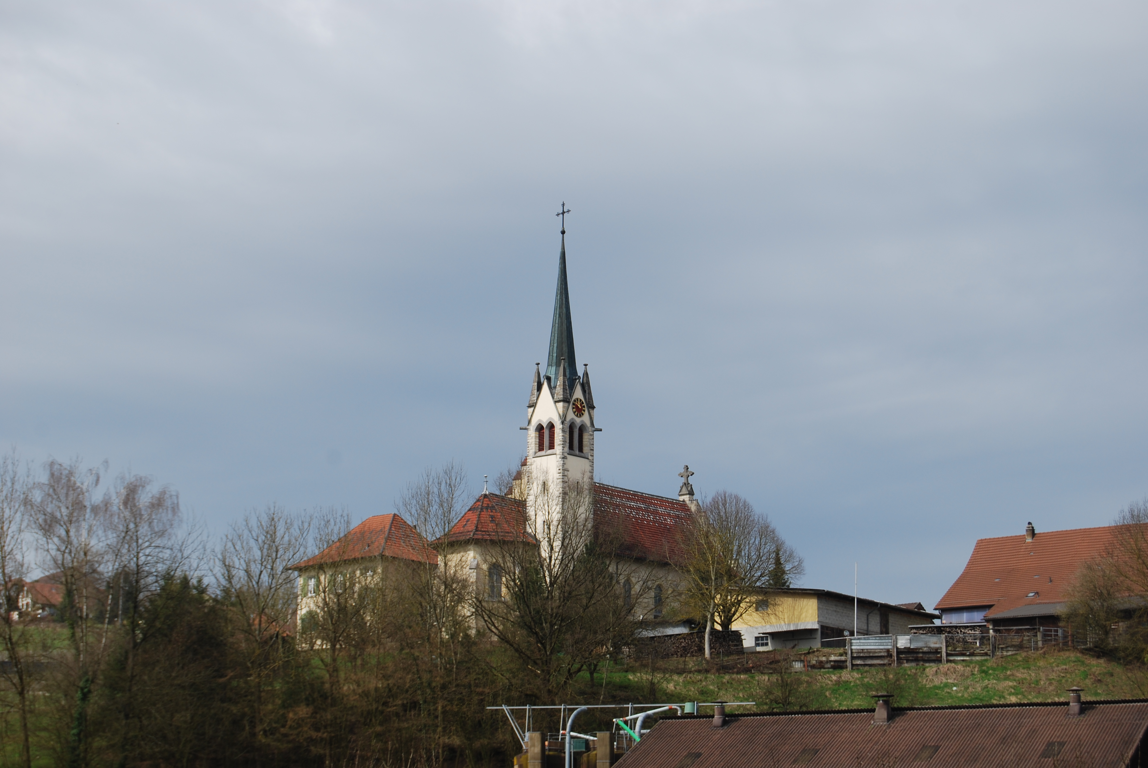 Church of Baldingen, canton of Aargau, SwitzerlandEsperanto: Preĝejo de Baldingen, Kantono Argovio, Svislando